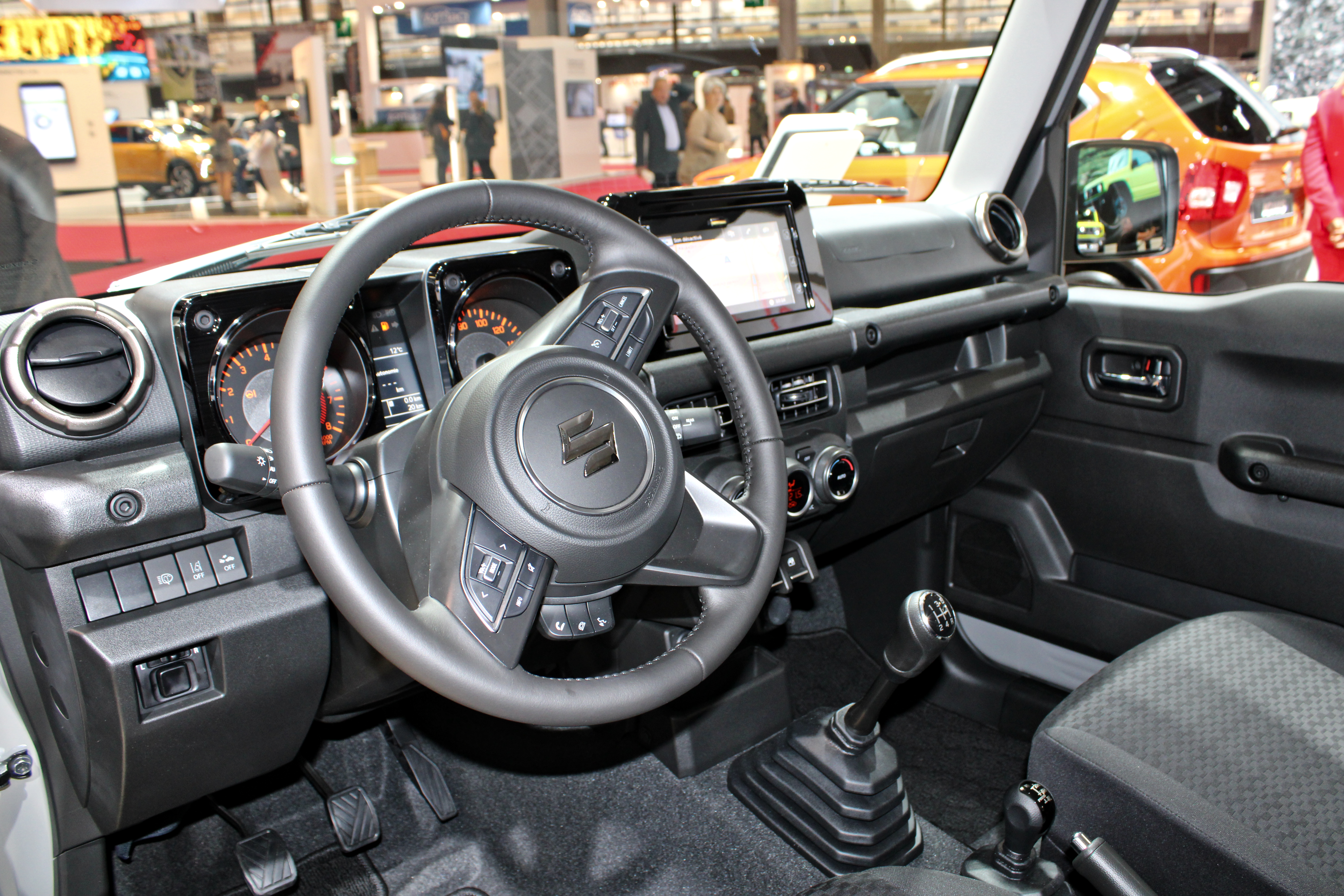 Suzuki Jimny at Paris Motor Show 2018